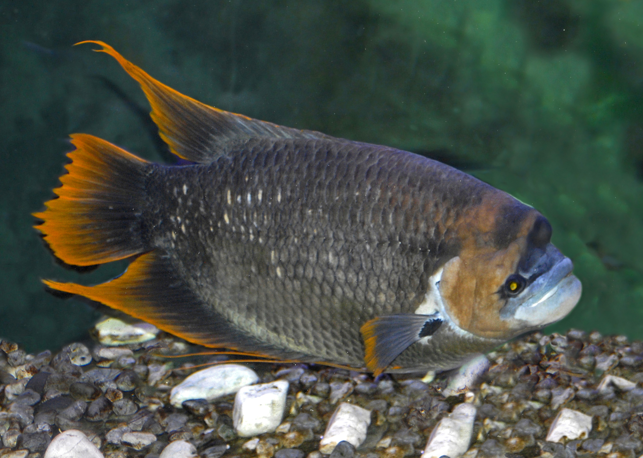 Adult Osphronemus laticlavius, on display at the Museo di Storia Naturale e del Territorio, Calci (Province Pisa), Italy